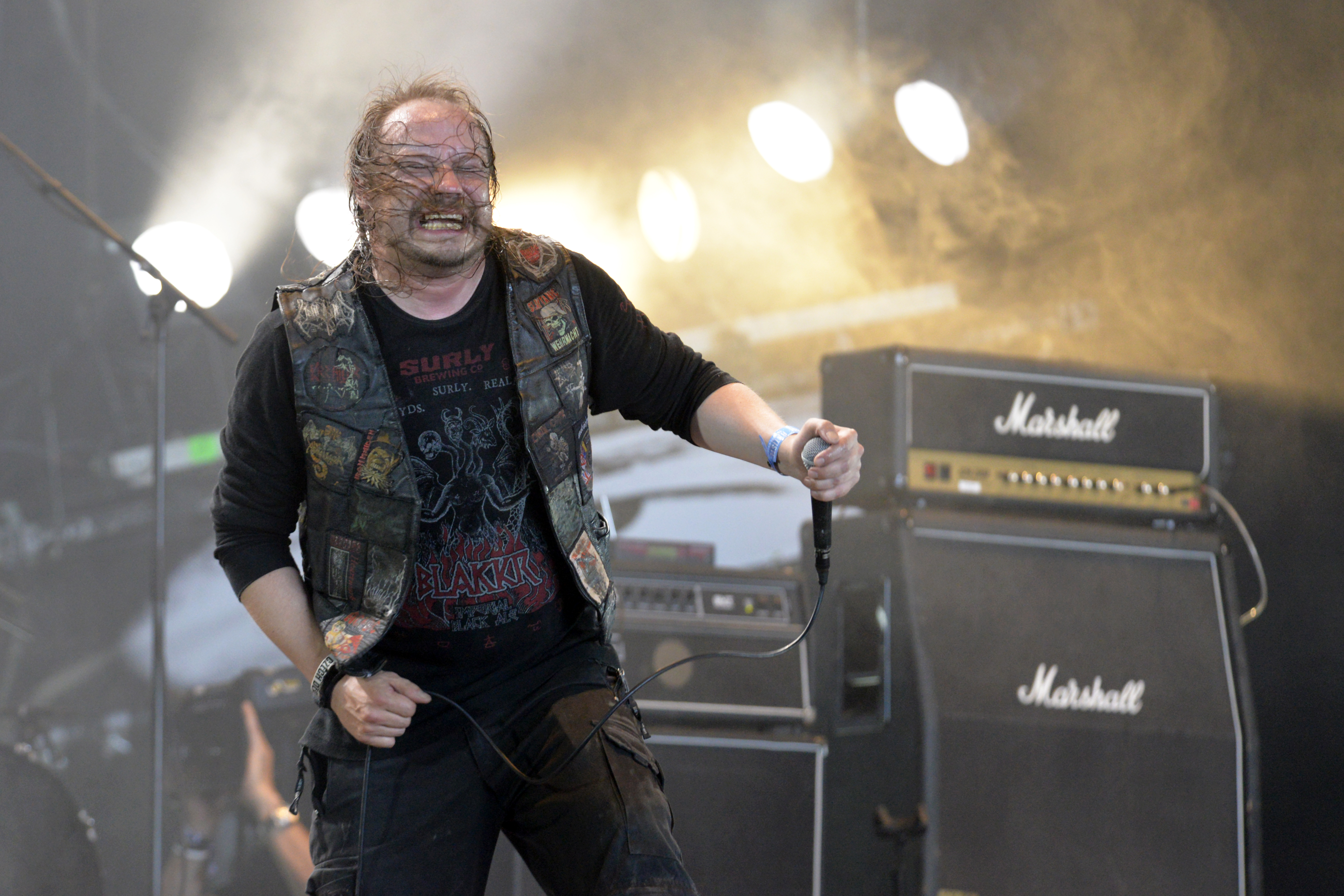 Lars Göran Petrov performing with Firespawn at 2017 Hellfest, France.